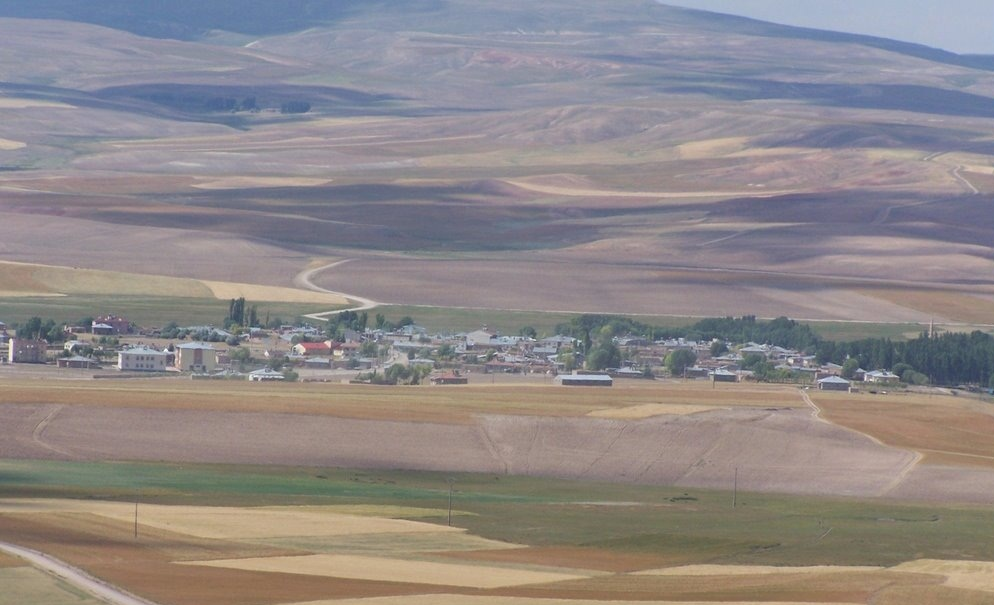 Havuz Beldesi, Kangal, Sivas, Türkiye